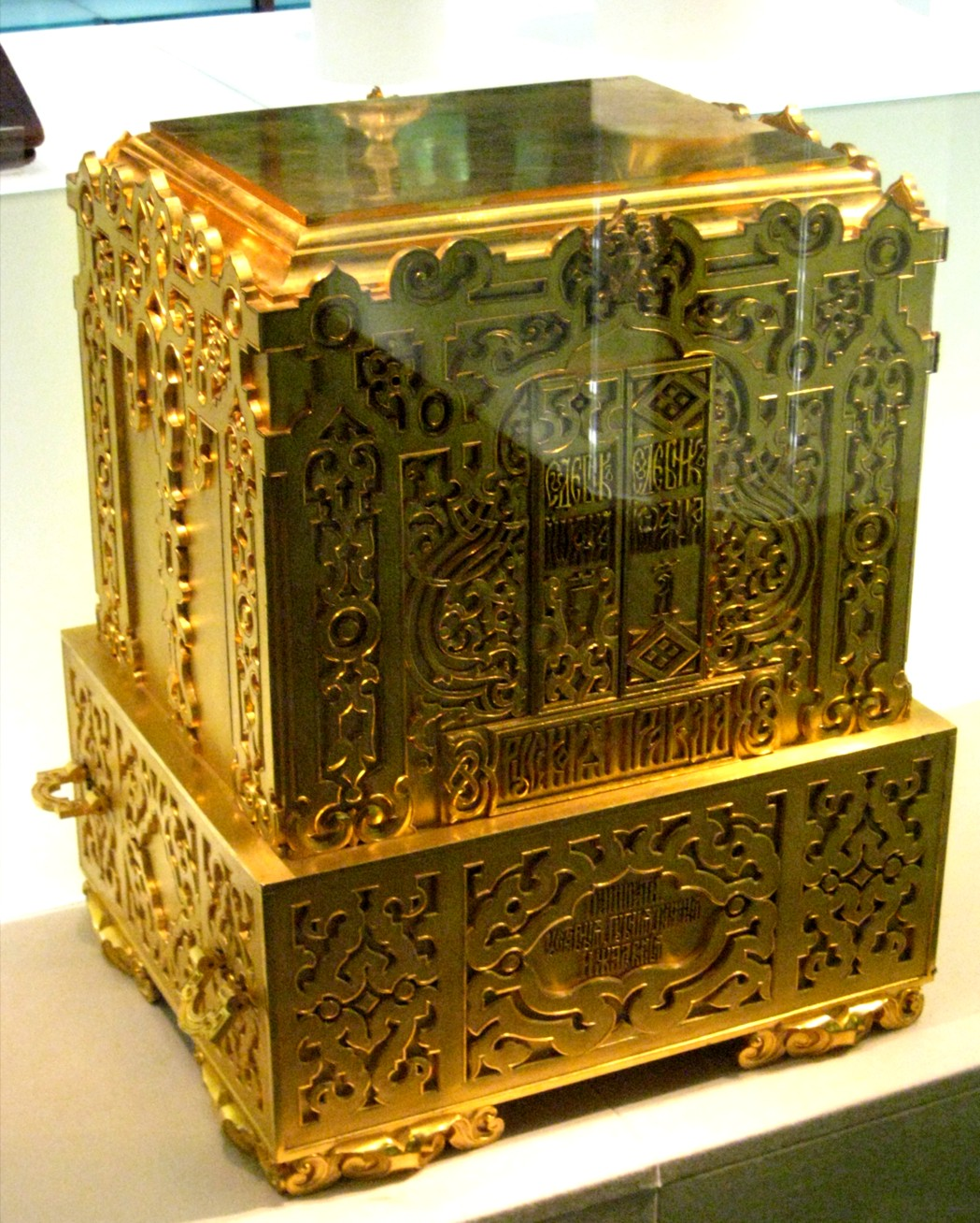 Casket for keeping "Russian pravda", various papers. 1853-58. F.Chopin's fabric or art bronze, master F.G. Solntsev